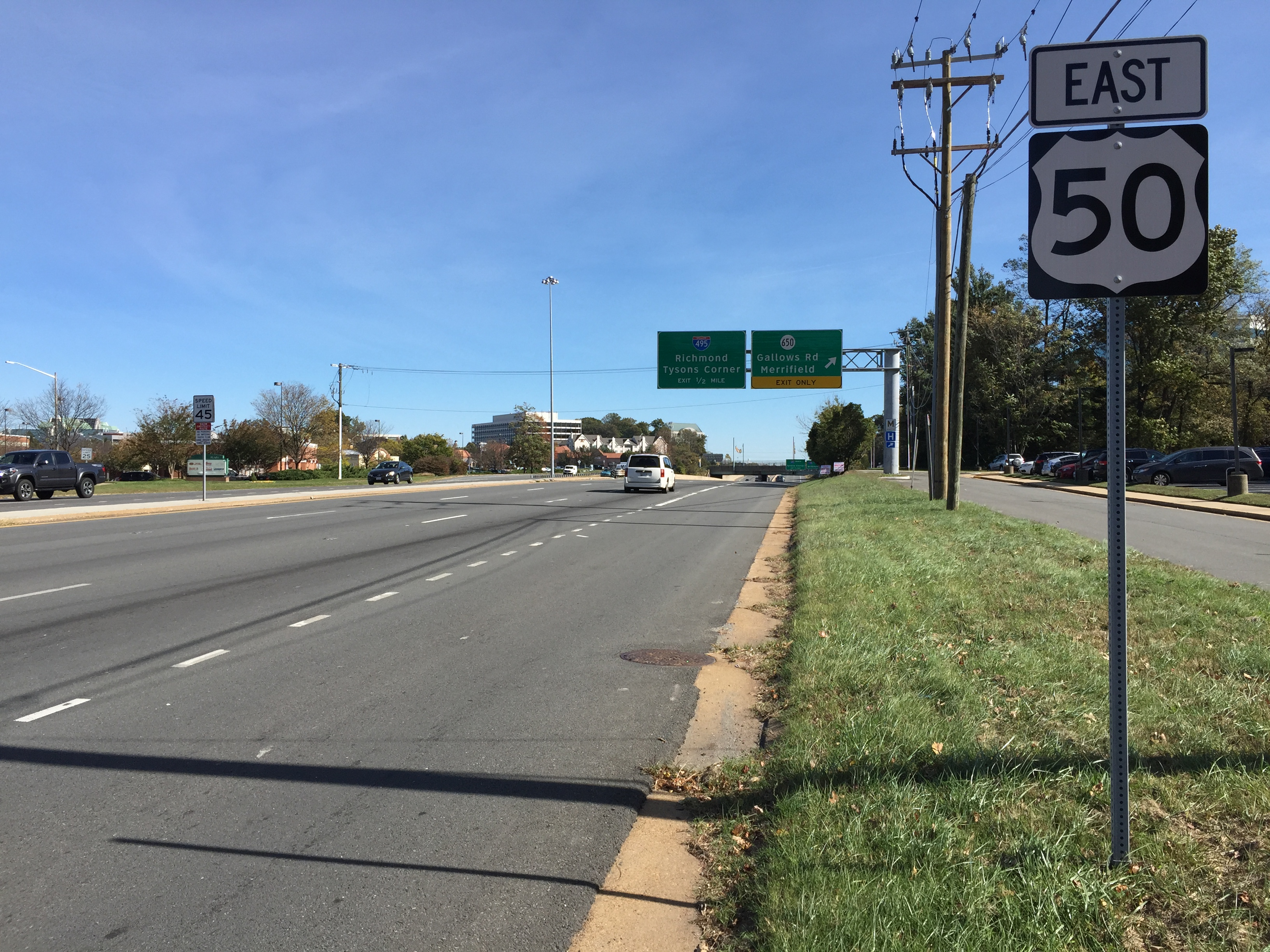 View east along U.S. Route 50 (Arlington Boulevard) at Gallows Road (Virginia State Secondary Route 650) in Woodburn, Fairfax County, Virginia